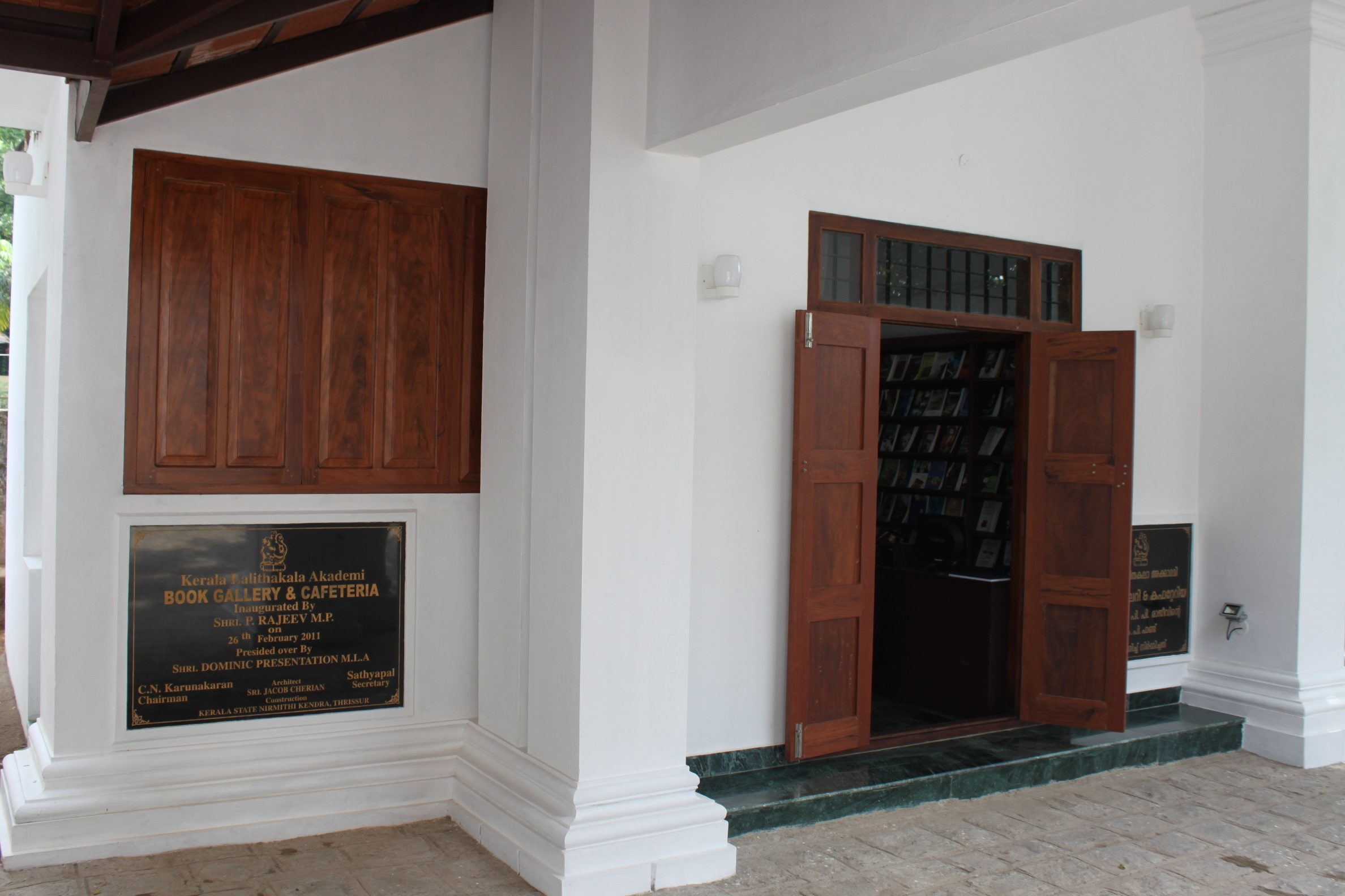 kerala lalitha kala academi - book gallery @ cafe